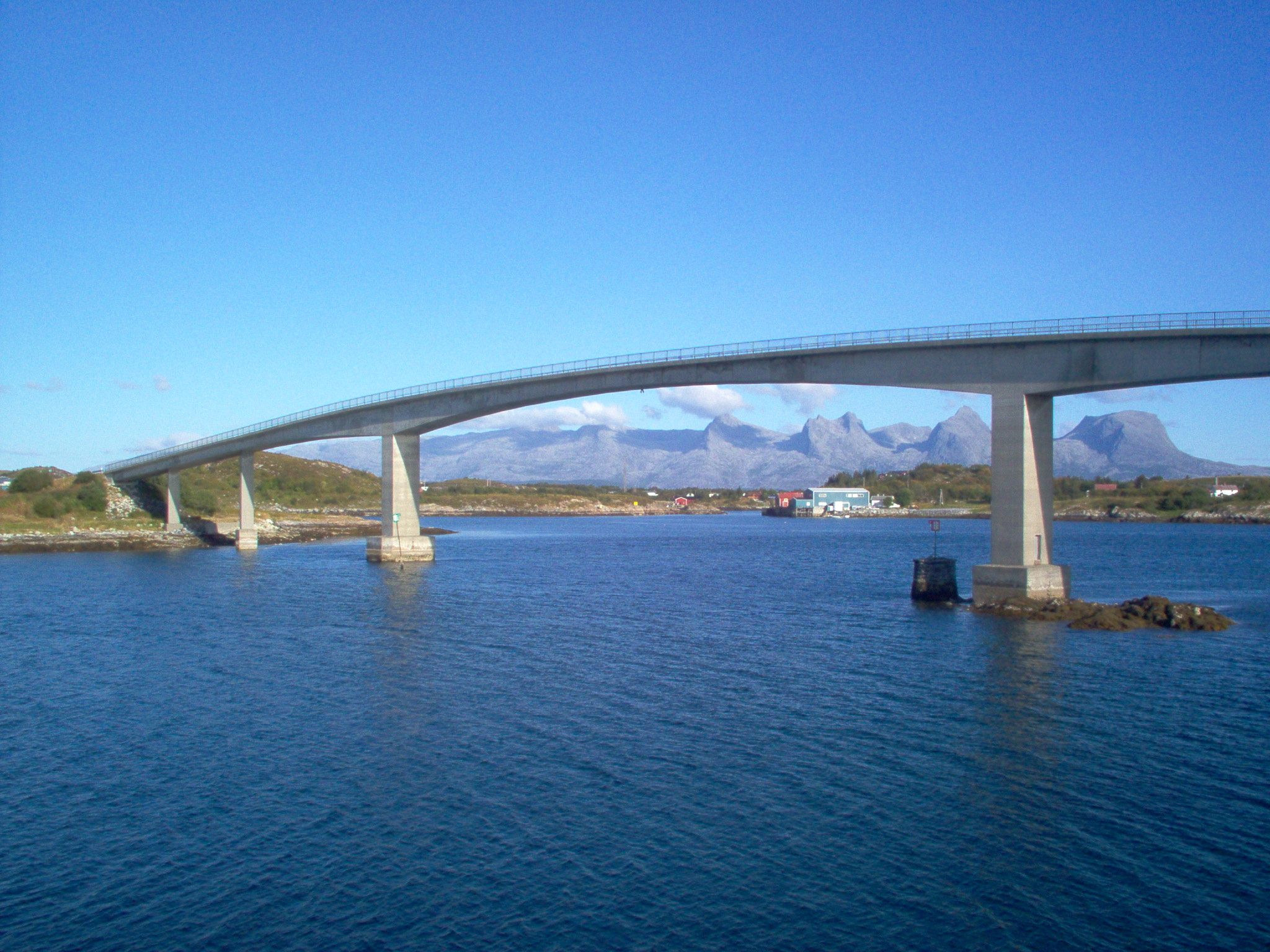 Kalvøyrevet Bridge with Herøysundet and De syv søstre in the background.